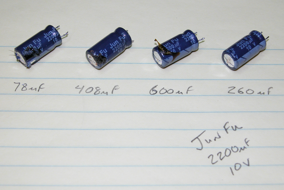 This is my photo of 4 capacitors taken from a computer power supply. The capacitors show dramatic drop in capacitance. I release it to the public domain under the GFDL.